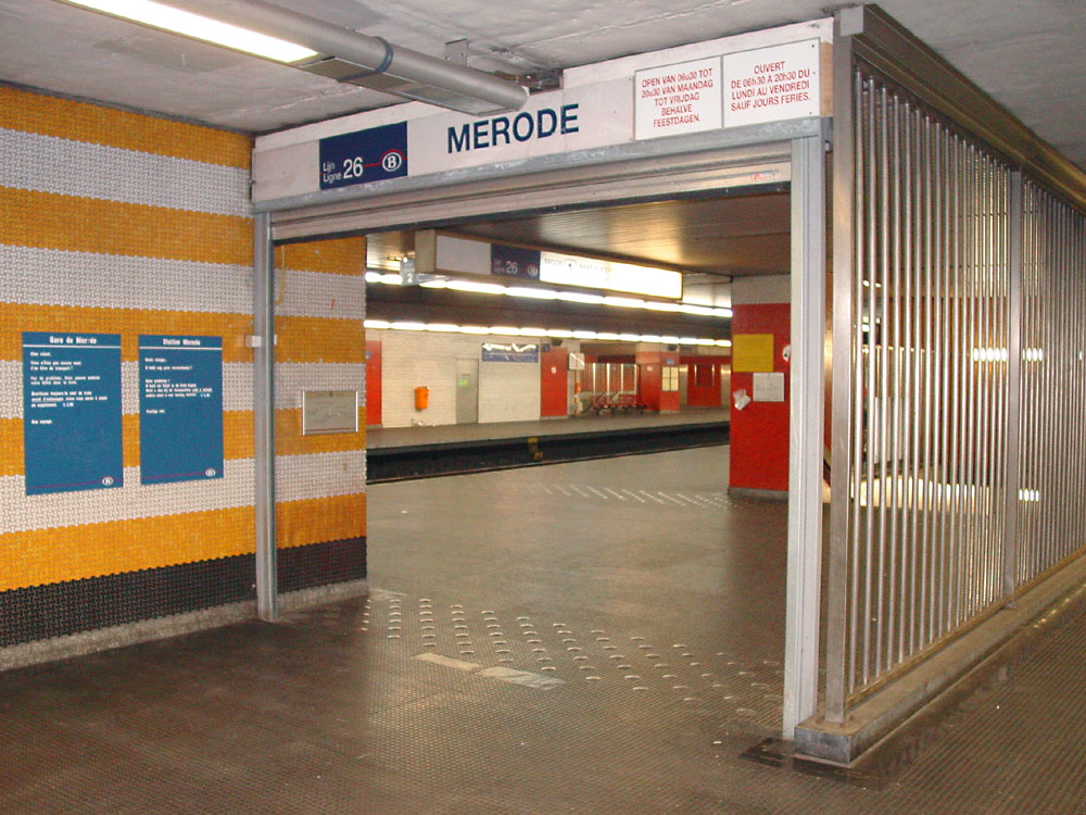 Photograph of the inside entrance to Merode railway station (coming from the direction of the metro), Brussels, Belgium. Taken by David Edgar on January 31, 2007.